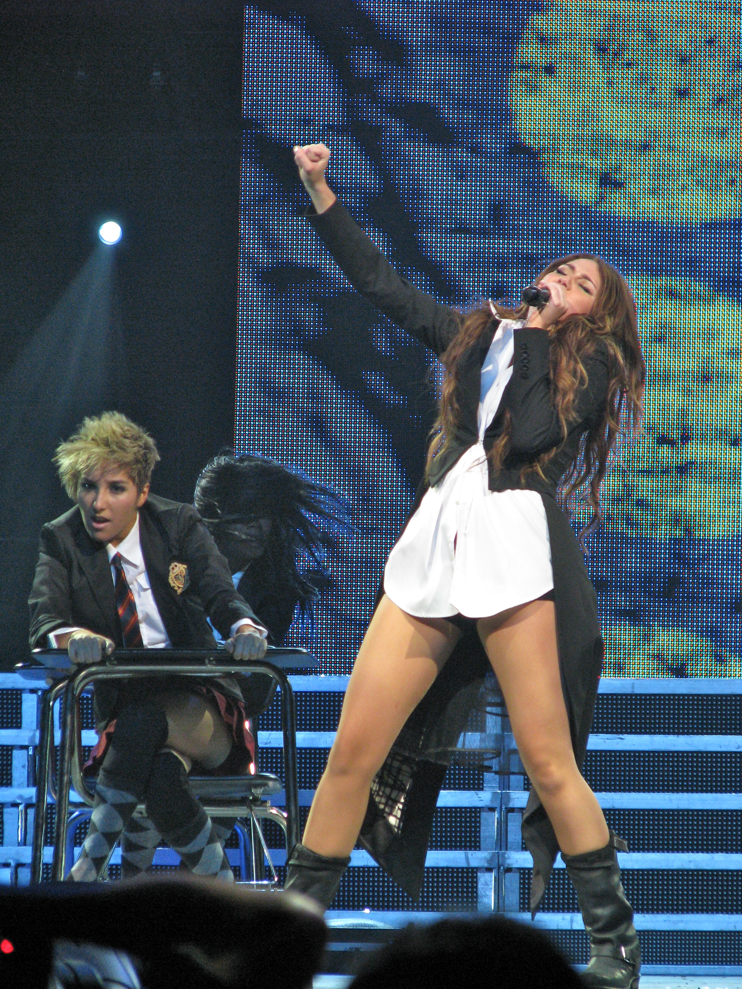 A teen singing.